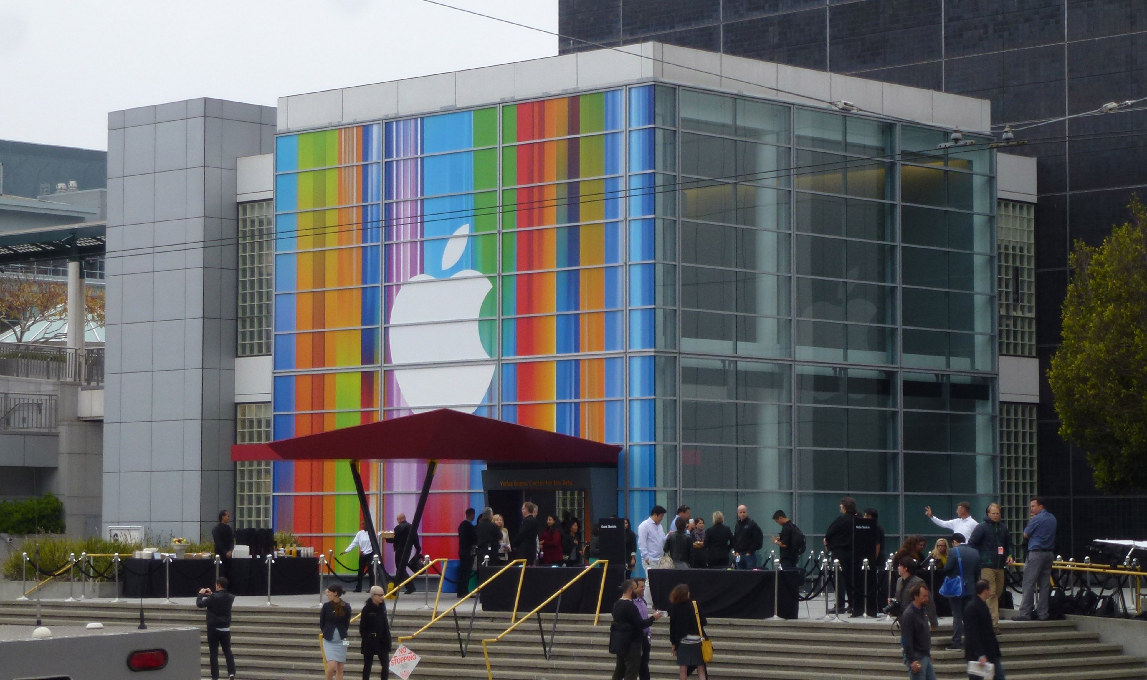 IPhone 5 keynote cropped